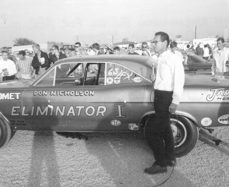 Drag racer Don Nicholson giving an interview to ABC Wide World of Sports (U.S. TV series), Tulsa 1966. Nicholson was ranked #18 on NHRA's Top 50 Drivers in 2001.Don Nicholson